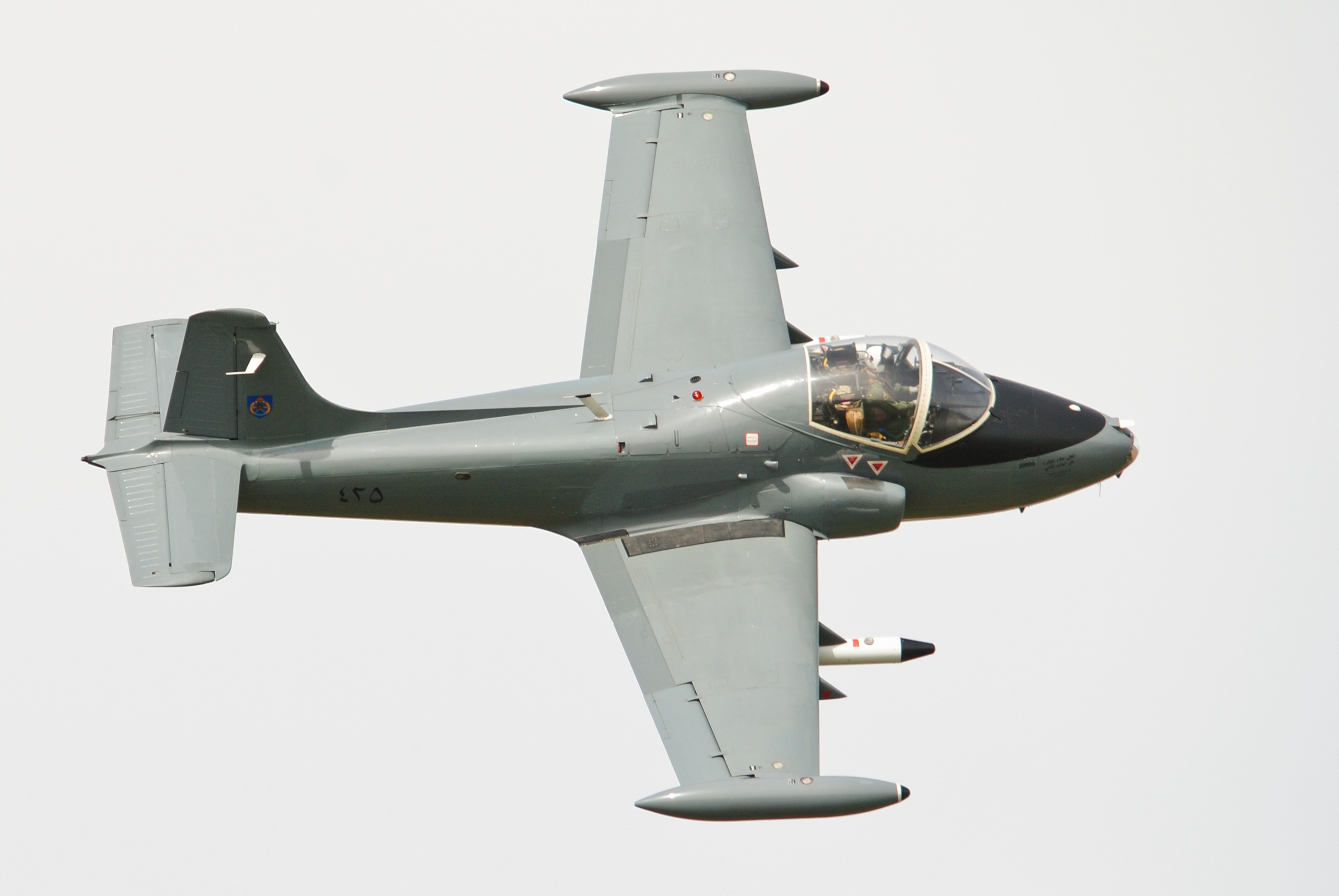 BAC Strikemaster Mk82a taken at Shoreham Airshow 2013